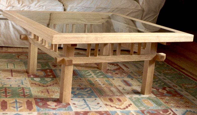 This is a wooden table with hand cut joinery made of ash, made by Ben Barclay.